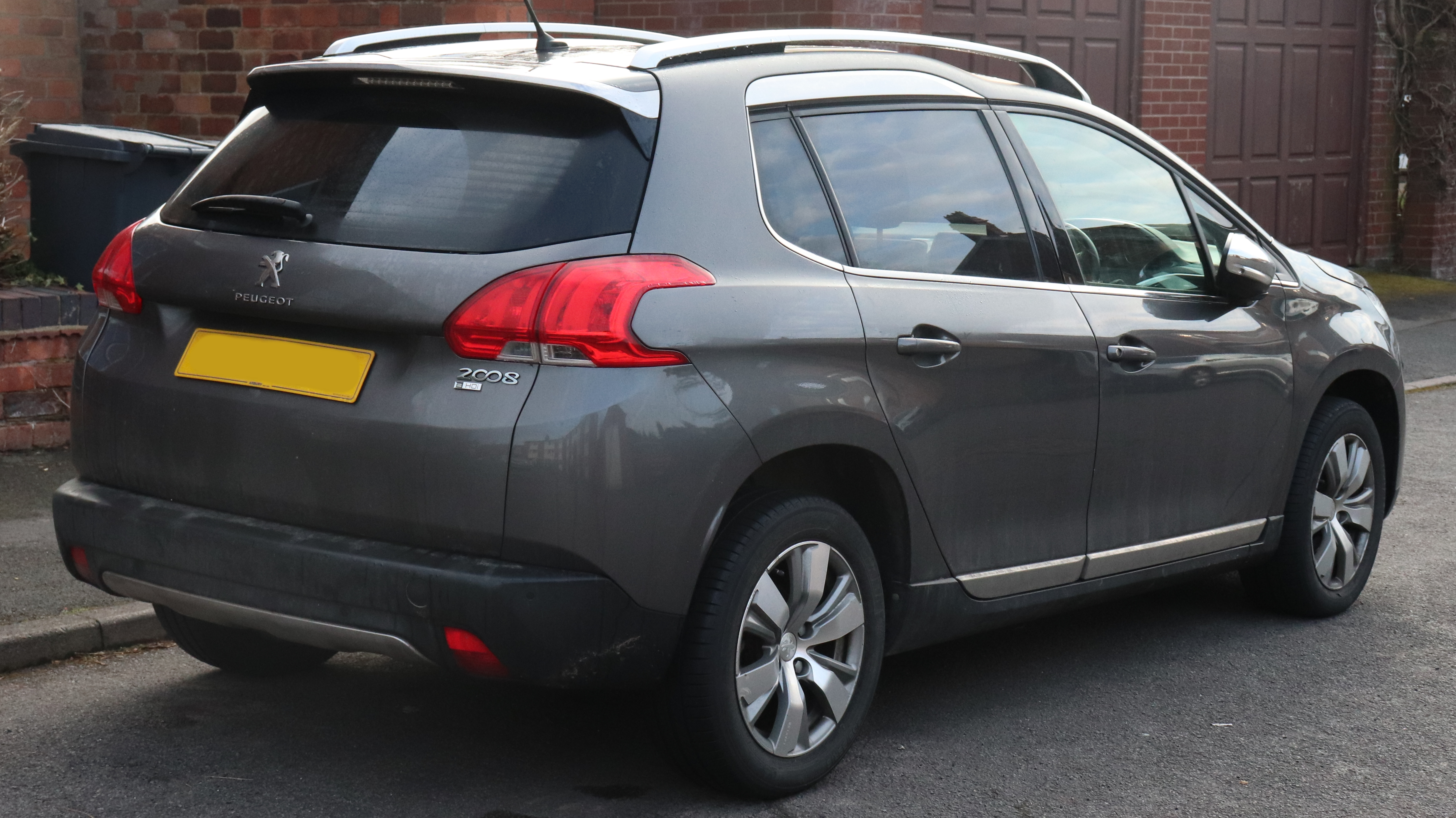 2015 Peugeot 2008 Allure E-HDi S-A 1.6 Rear Taken in Leamington Spa